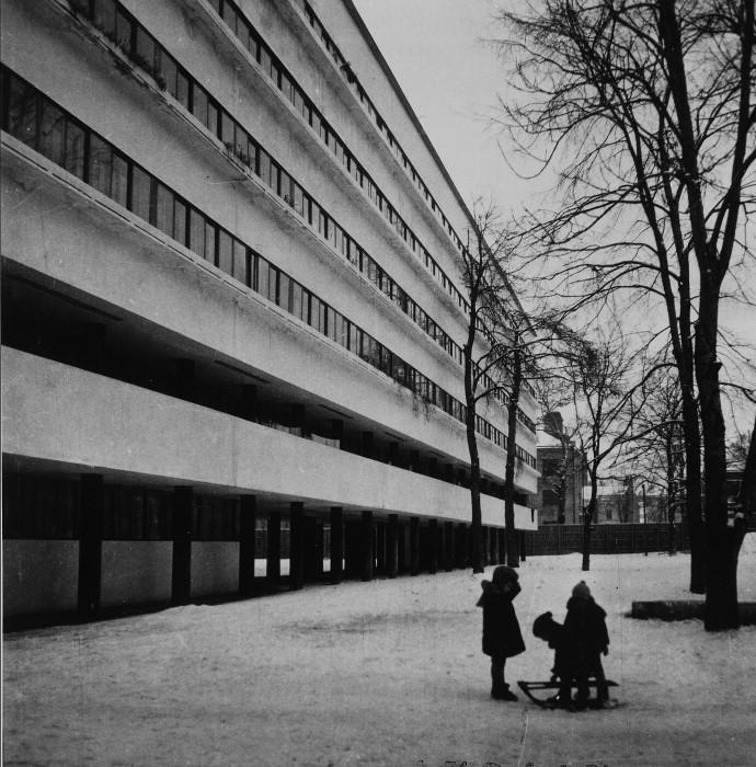 Narkomfin building (Architects: M. Ginzburg, I. Miljutin) photographed by Robert Byron during the 1930s